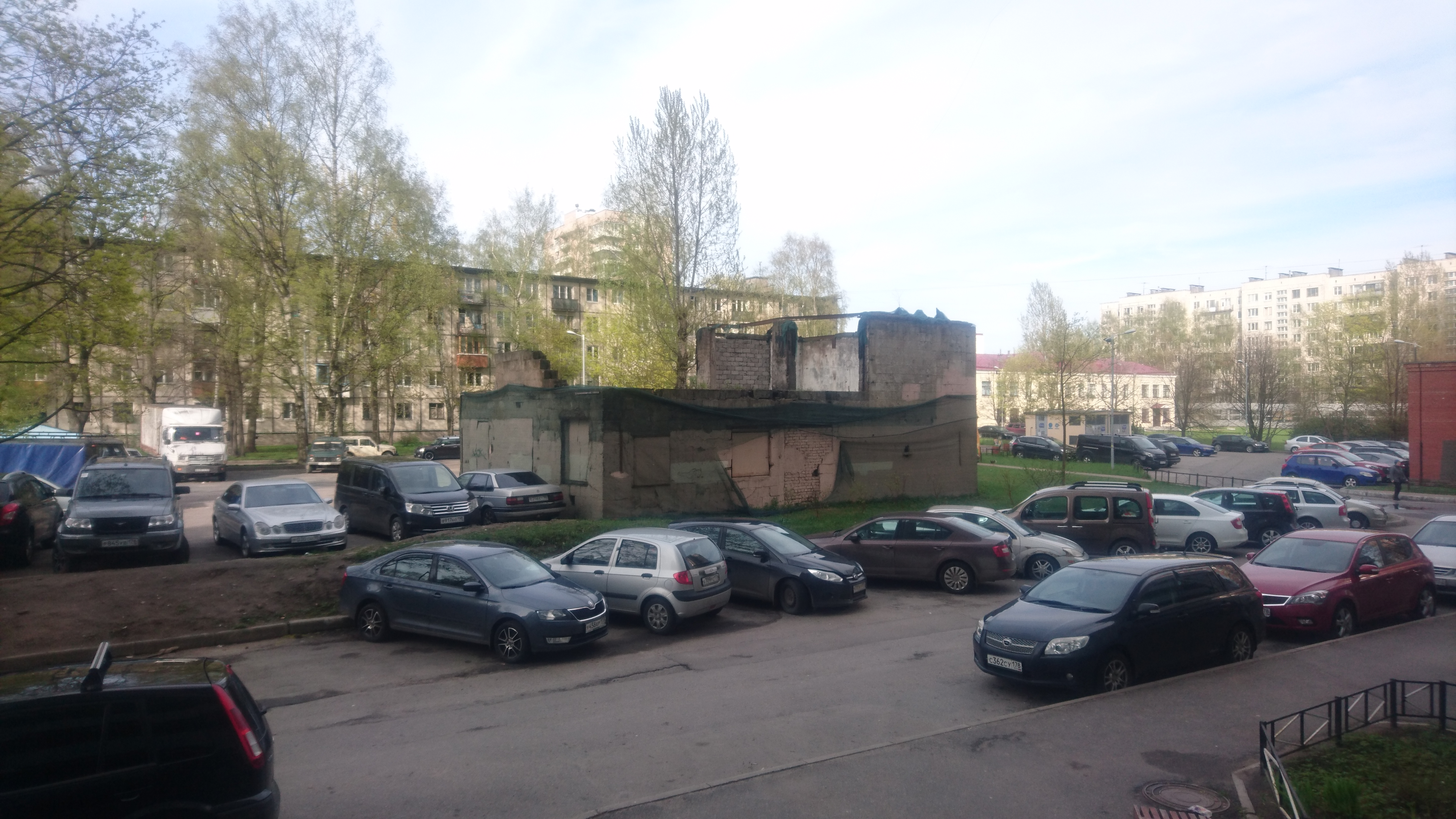 Leonid Sherwood's Workshop ruins (Bryusovskaya ul. 6/2, St. Petersburg, Russia)